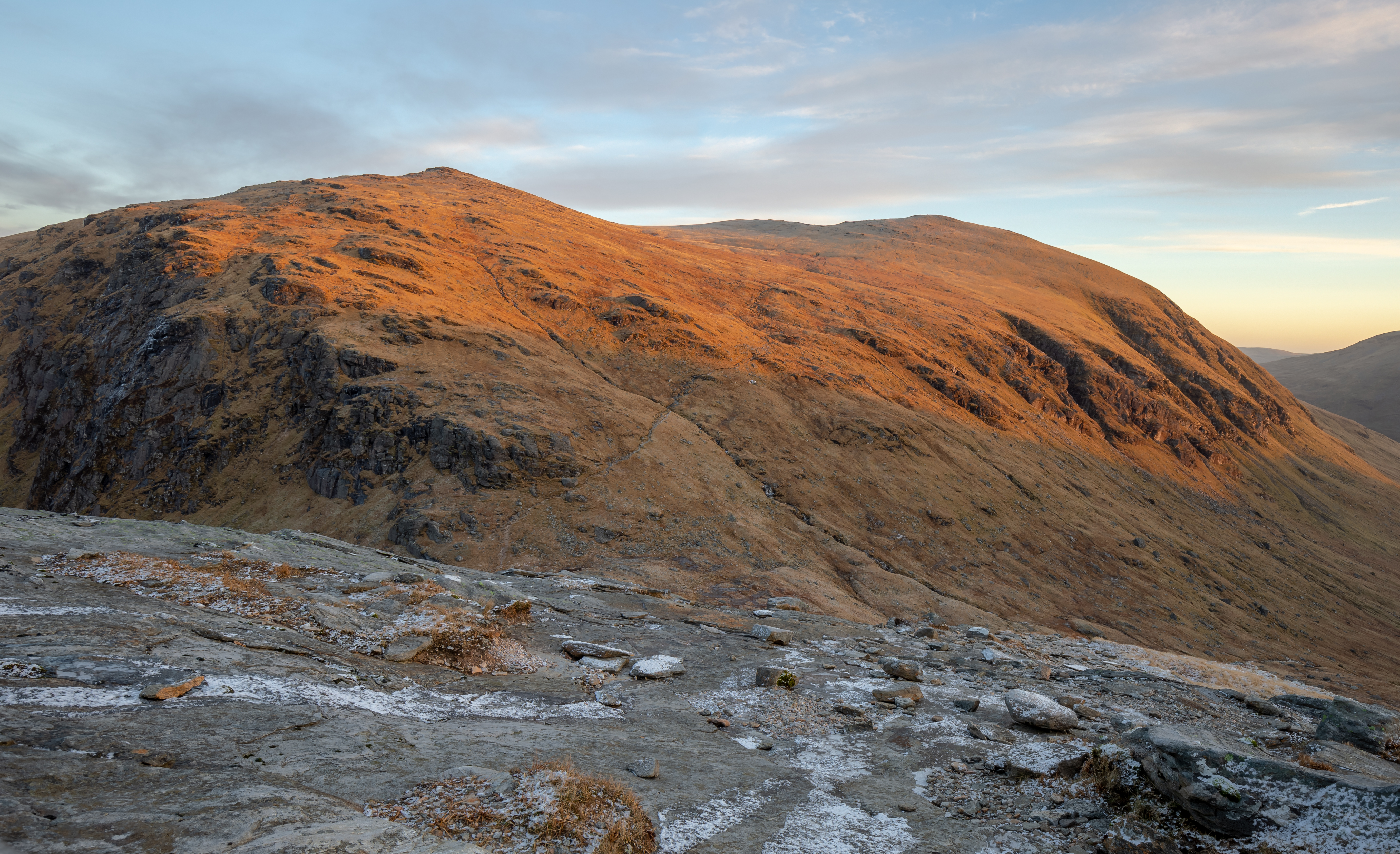 Beinn an Dothaidh during sunrise, Scotland